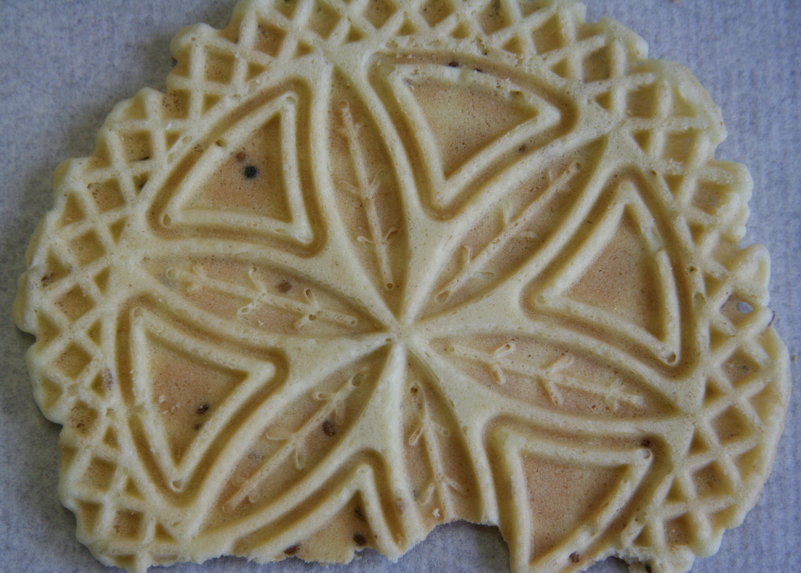 Italian anise pizzelle, a kind of waffle